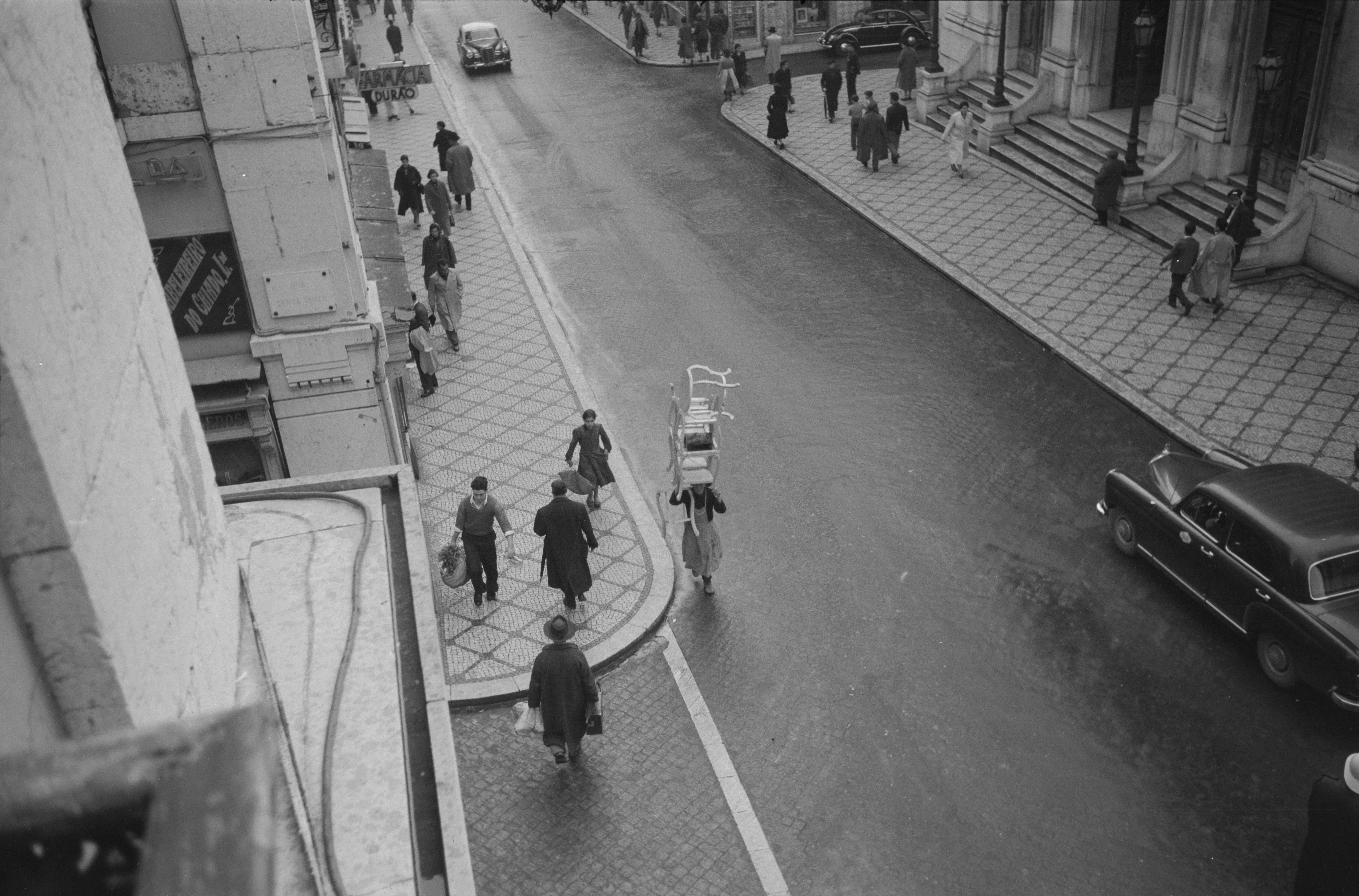 View from Lisbon